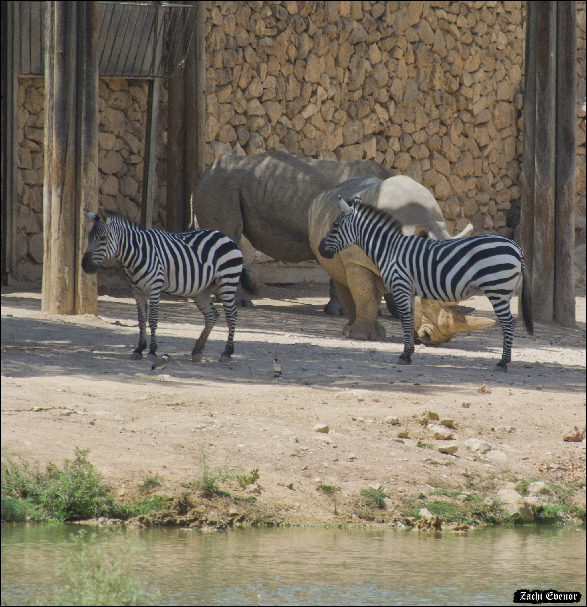 African Yard, Jerusalem Biblical Zoo, Jerusalem, Israel